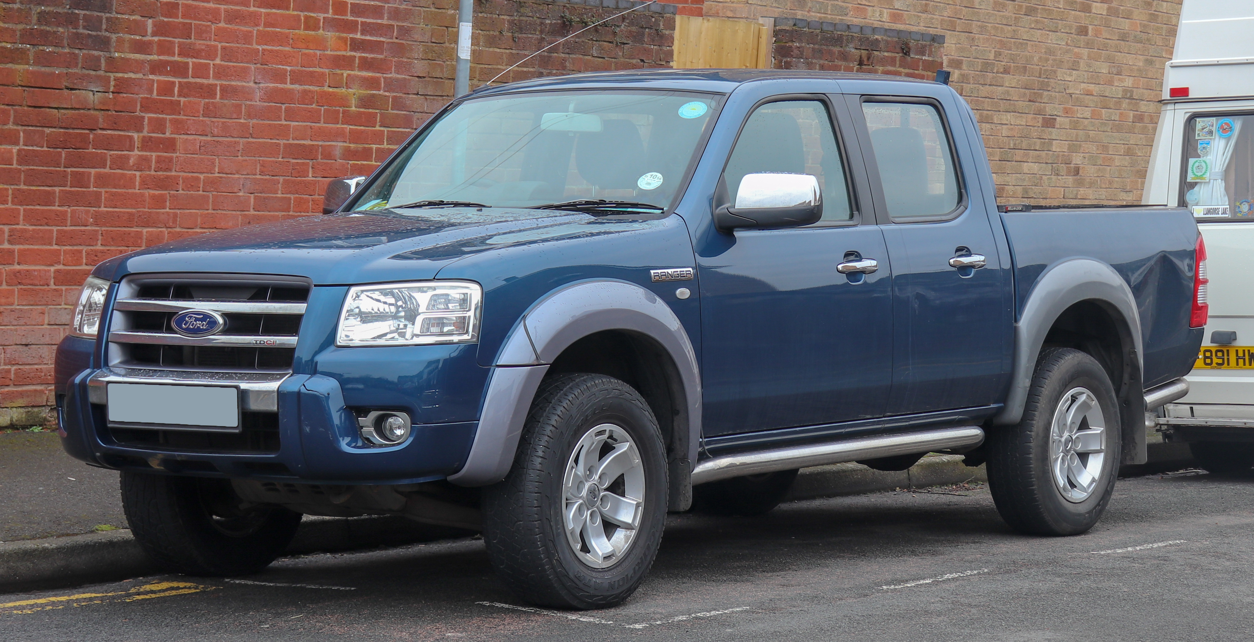 2007 Ford Ranger Thunder TDCI Automatic 3.0 Front Taken in Warwick